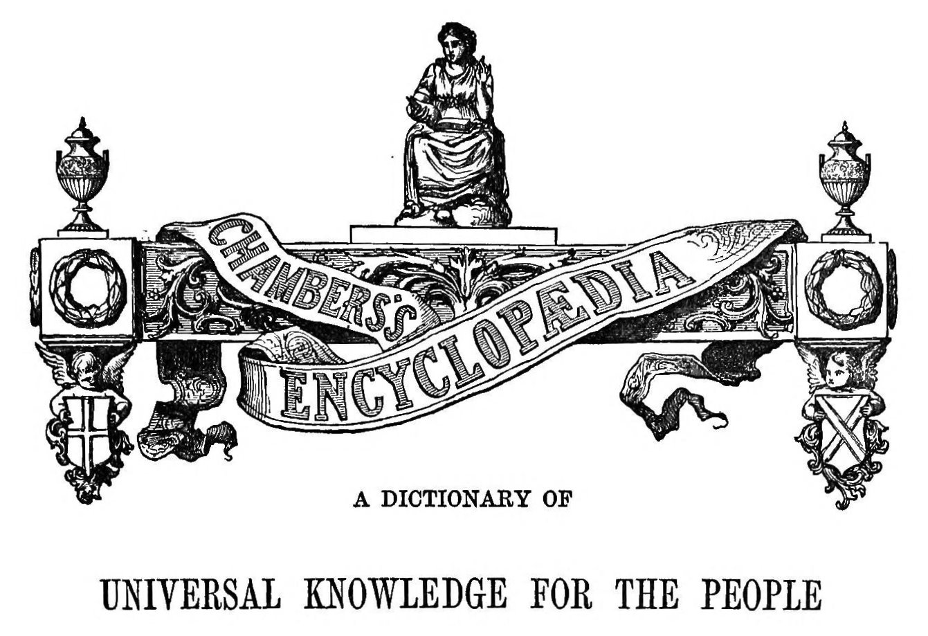 Title that appeared at the start of each volume of Chambers's Encyclopaedia.